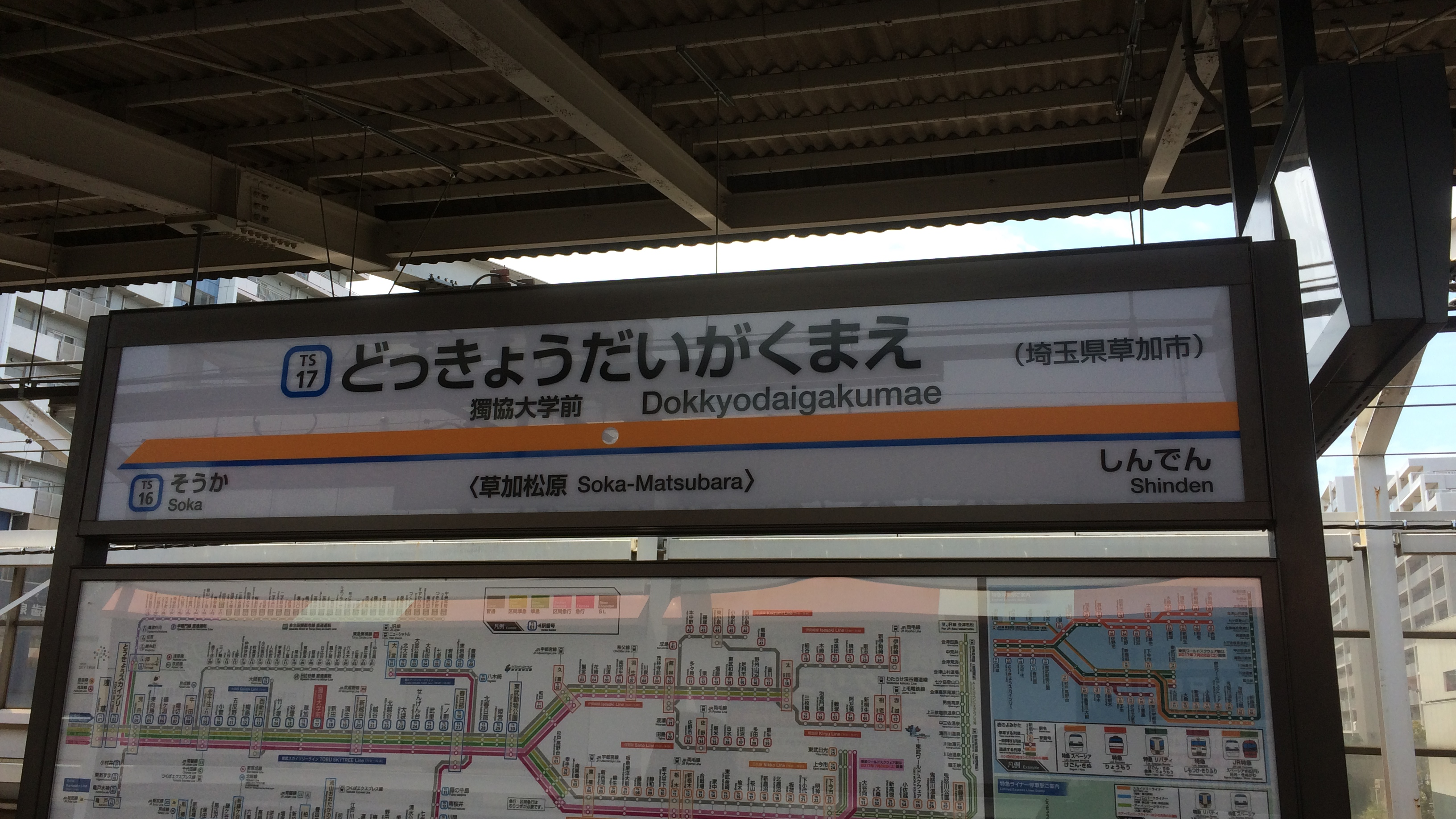 The station sign at Dokkyodaigakumae Station on the Tobu Skytree Line in Saitama Prefecture, Japan